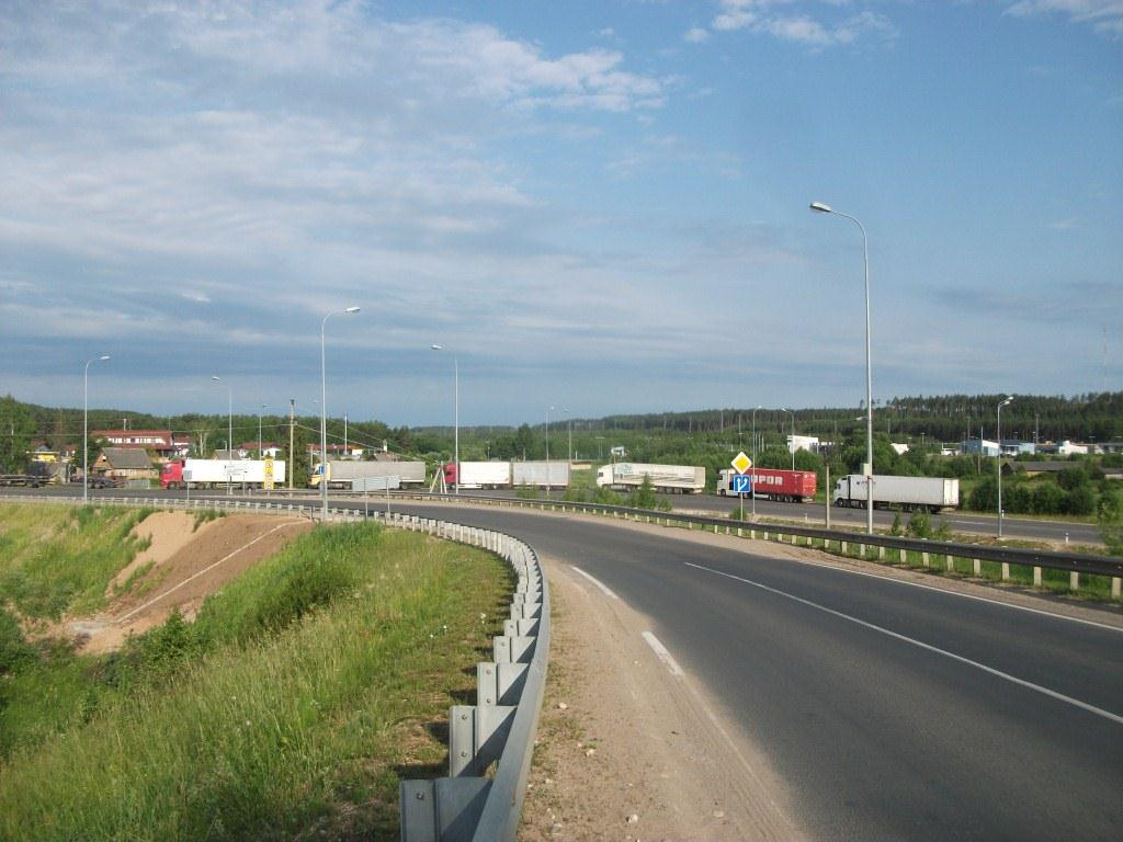 Check Point Kunichina Gora